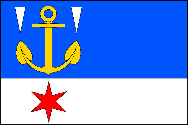 Municipal flag of Županovice , District Příbram, Czech Republic